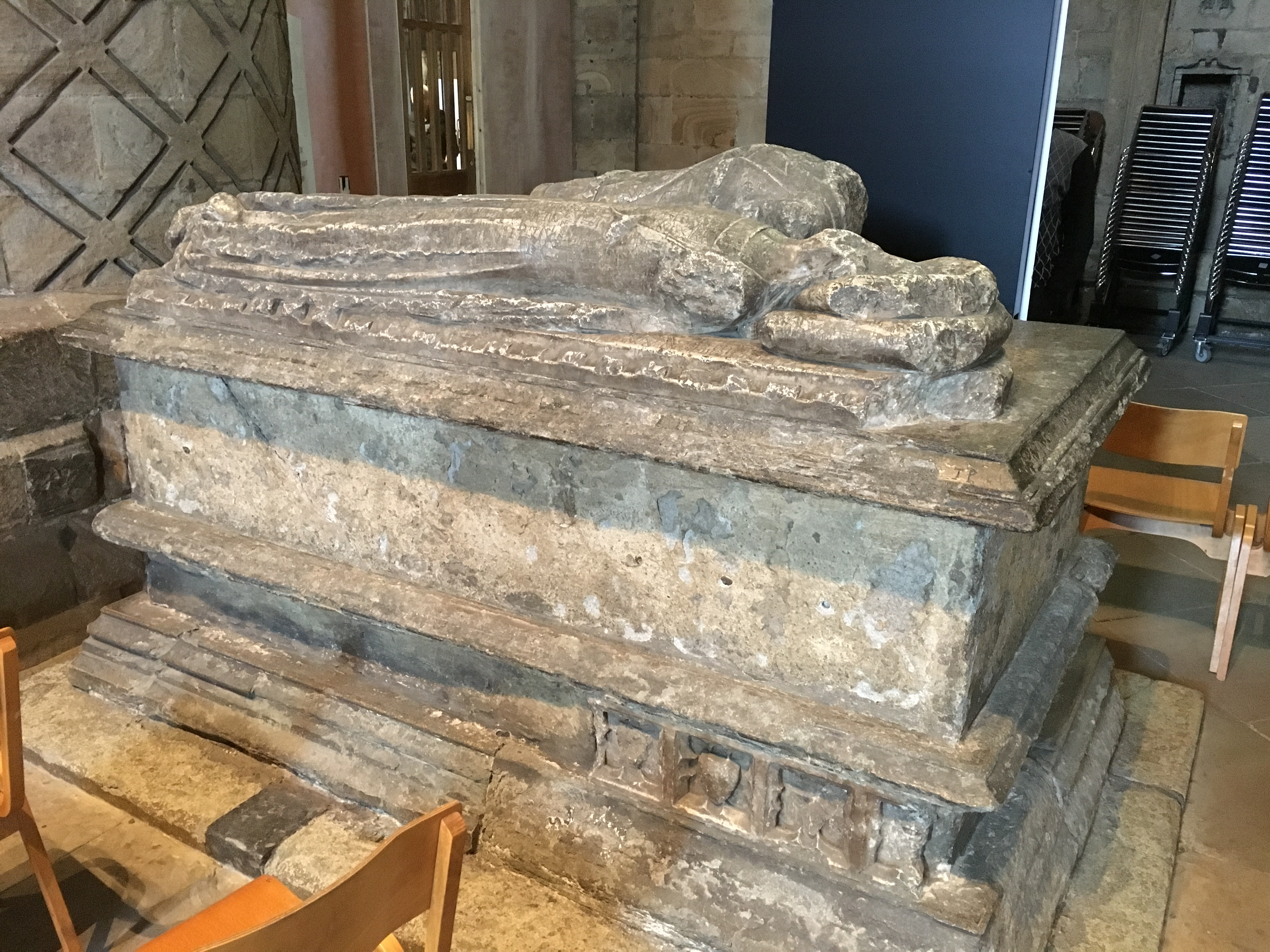 Phone-quality picture of the Highly-damaged tomb of Ralph Neville, 2nd Baron Neville de Raby and his wife, Alice de Audley, in Durham Cathedral. (Not an ideal photo)